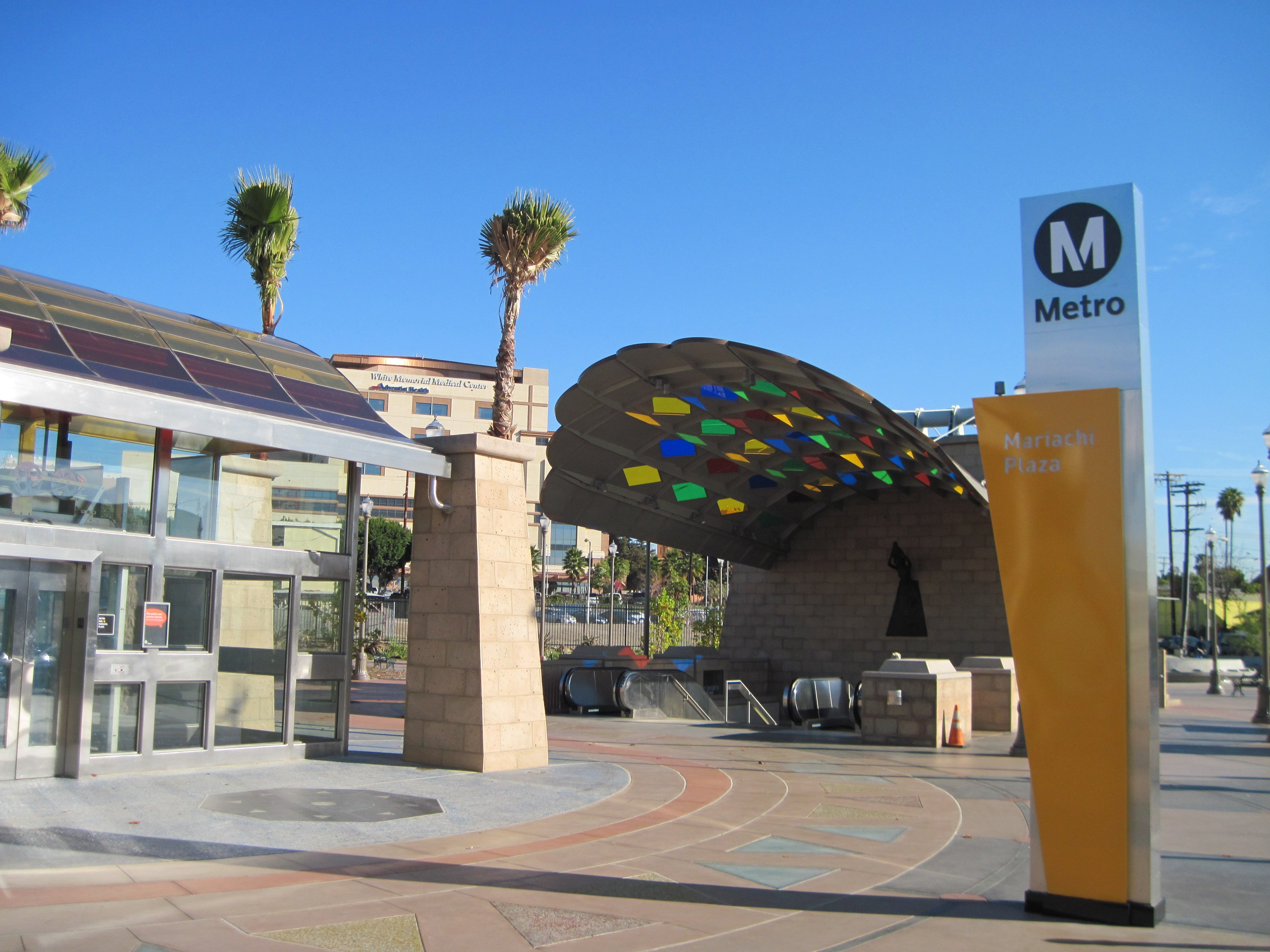 The Los Angeles County Metropolitan Transportation Authority's Mariachi Plaza station, serving the Metro Gold Line in Los Angeles, California, USA.